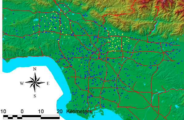 Gismap